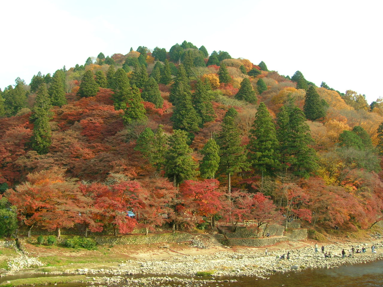 Iimori-yama (Mt.Iimori, Kourankei) Loc: Asuke, Toyota city, Aichi Prefecture, Japan 飯盛山 (香嵐渓) 撮影場所 愛知県豊田市足助町